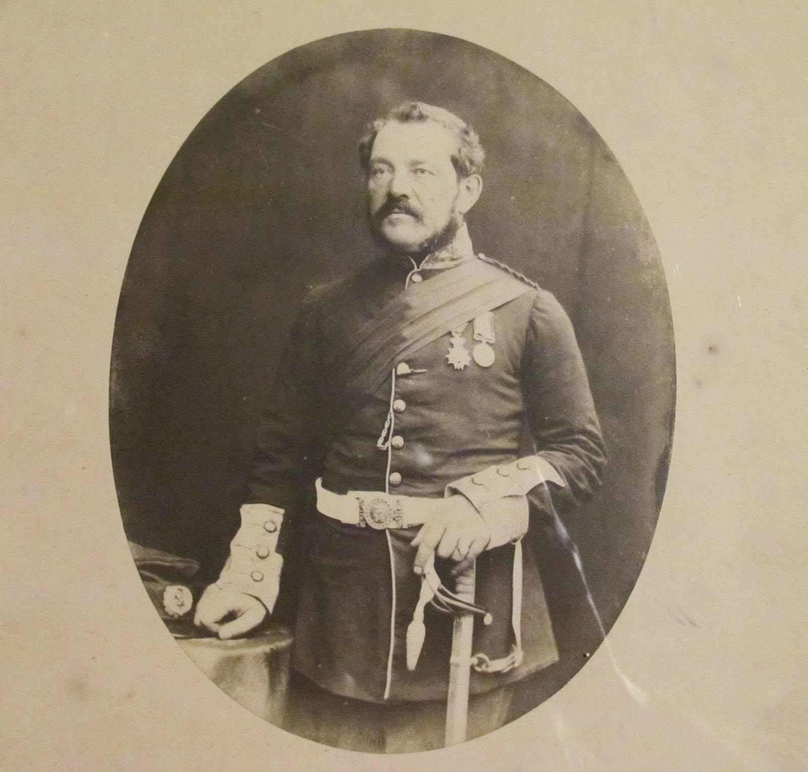 Old photograph of Colonel Richard Denis Kelly